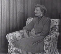 Pat Nixon shown during Nixon's Checkers speech, which is part of The Fund Broadcast